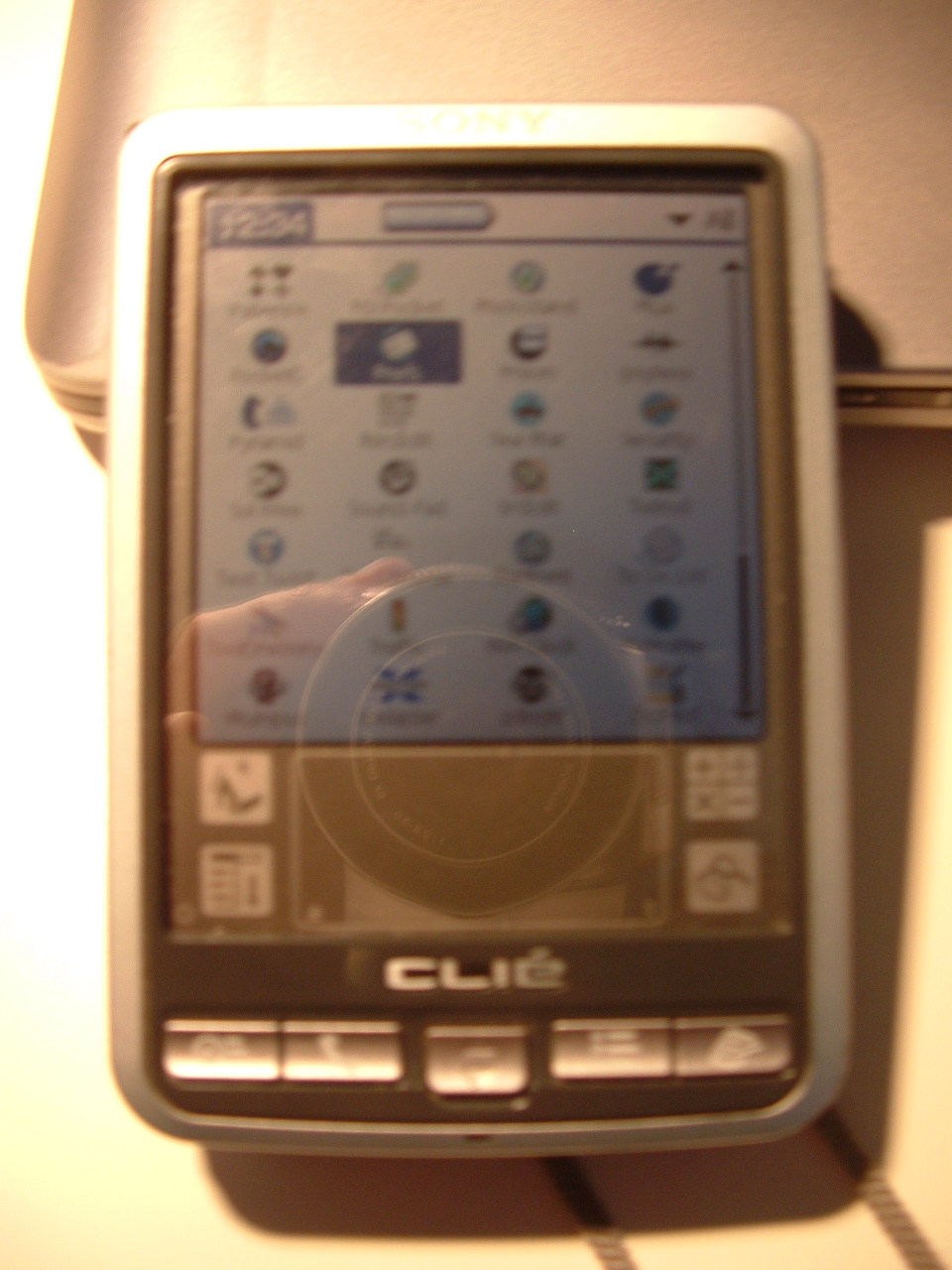 A Picture of My personal Sony CLIÉ PEG-SJ22 taken with my own camera. Adam Ladds